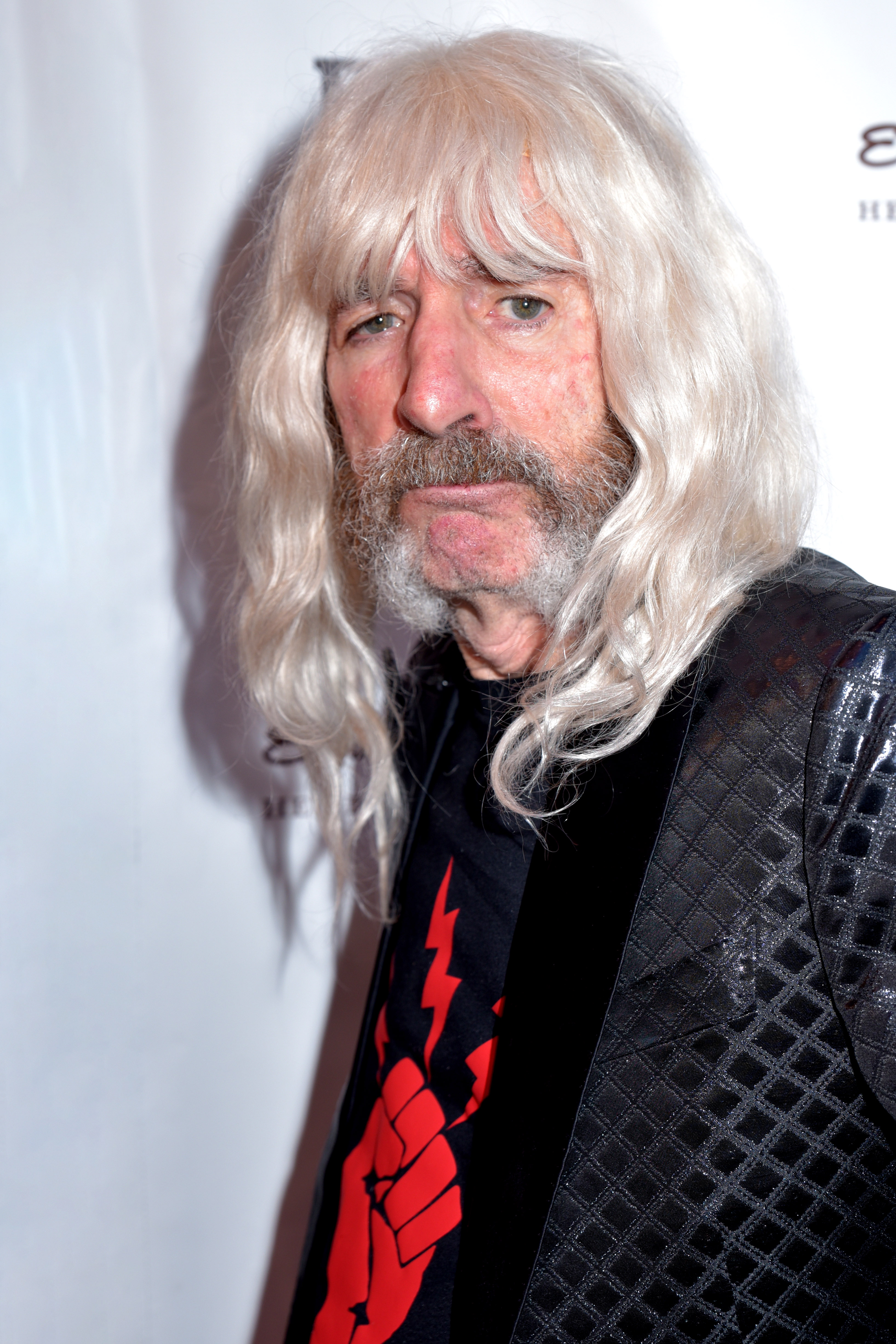 Derek Smalls arrives for the California Saga 2 Charity Concert in Los Angeles California on July 3, 2019 - Photo by Glenn Francis of